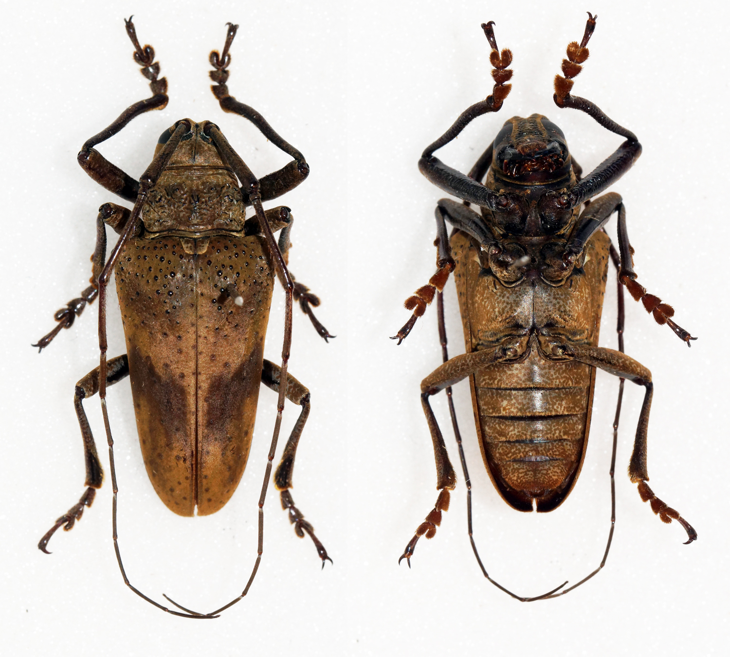 Thomson,1868 Sex: Male Data: 16-03-79 - San Vito - Puntarenas Prov - Costa Rica Size: 25mm